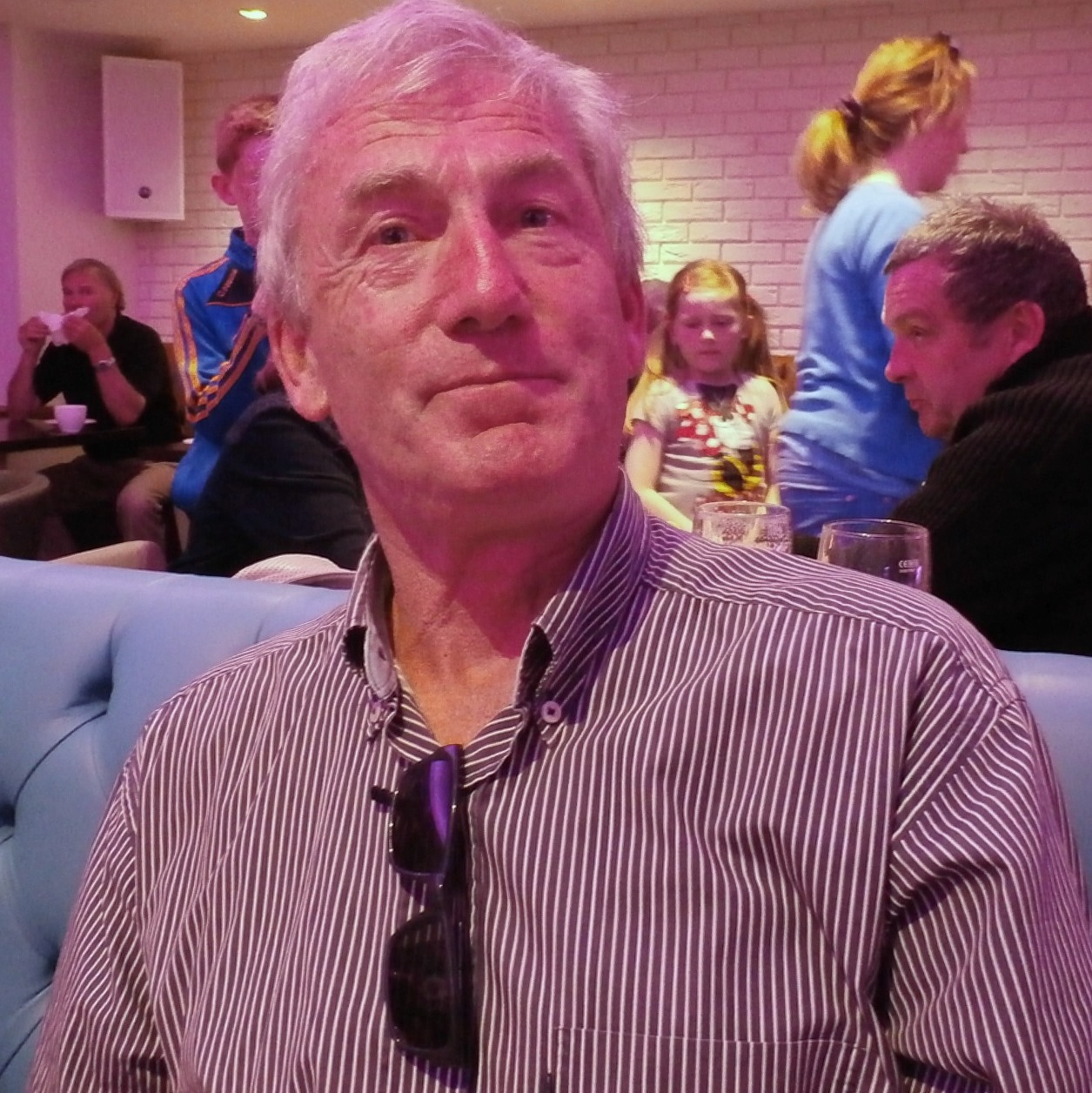 Ger O'Keefe in Waterville to honour Mick O'Dwyer.